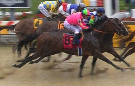 Firing Line in the Preakness Stakes. Crop of File:American_Pharoah_start_of_Preakness_Stakes.jpg